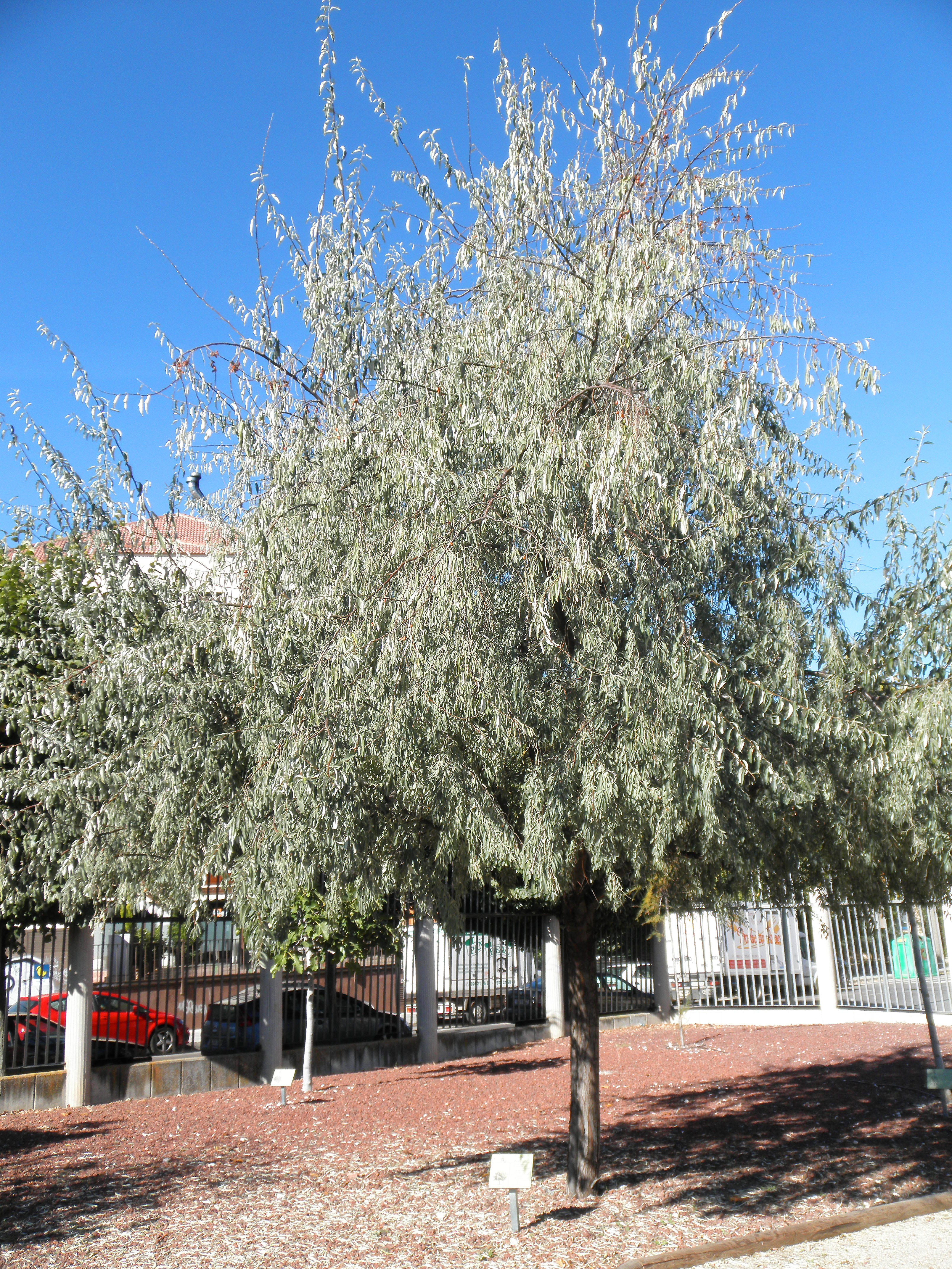 Elaeagnus angustifolia, habit, Parque El Pilar de Ciudad Real, Spain